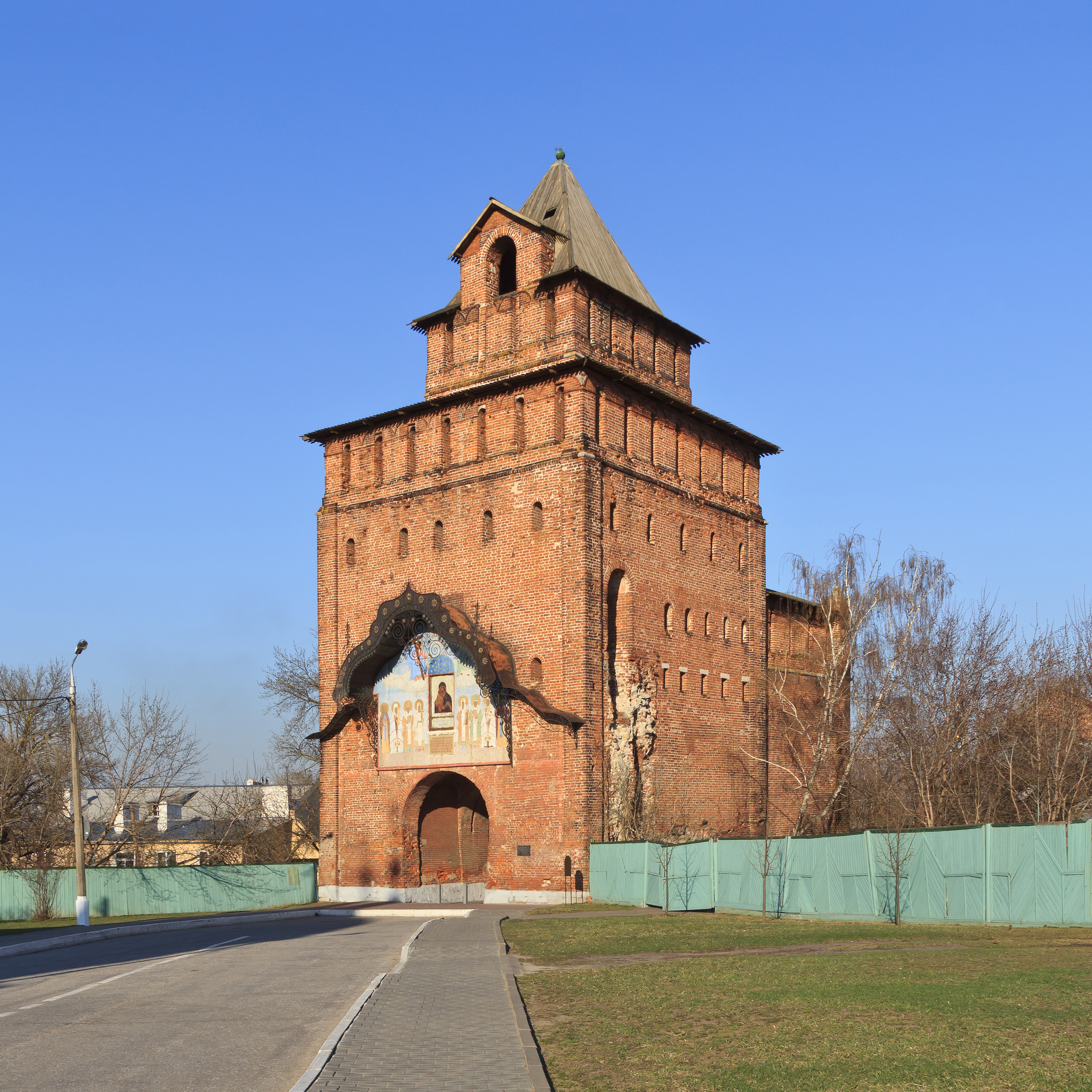 Pyatnitskiye Gate of the Kolomna Kremlin. Kolomna, Moscow Oblast, Russia.